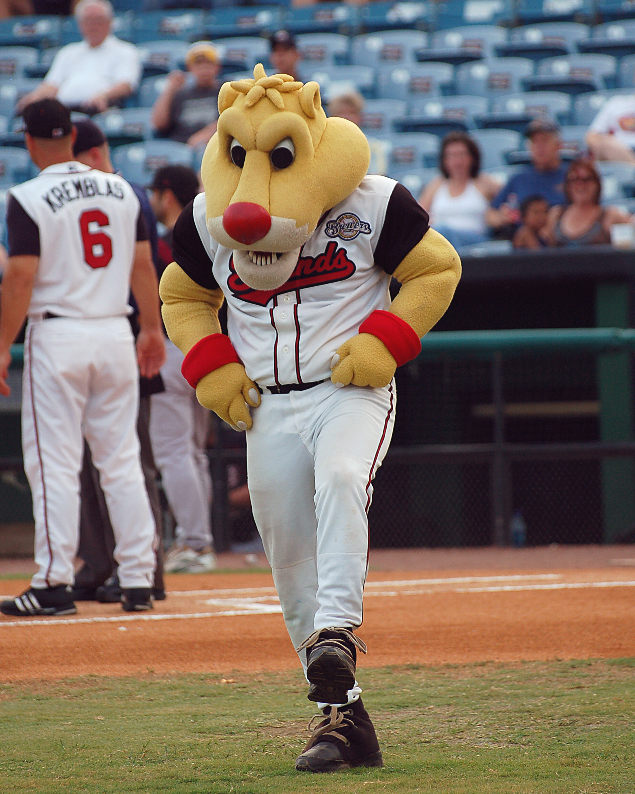 Ozzie, mascot for the minor league Nashville Sounds, before a game at Herschel Greer Stadium on July 31, 2007